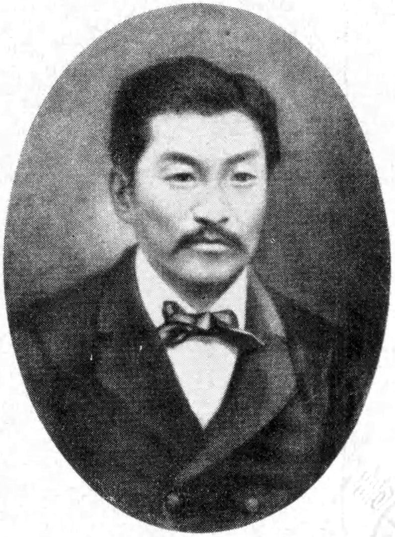 Kobayashi Yūshichirō